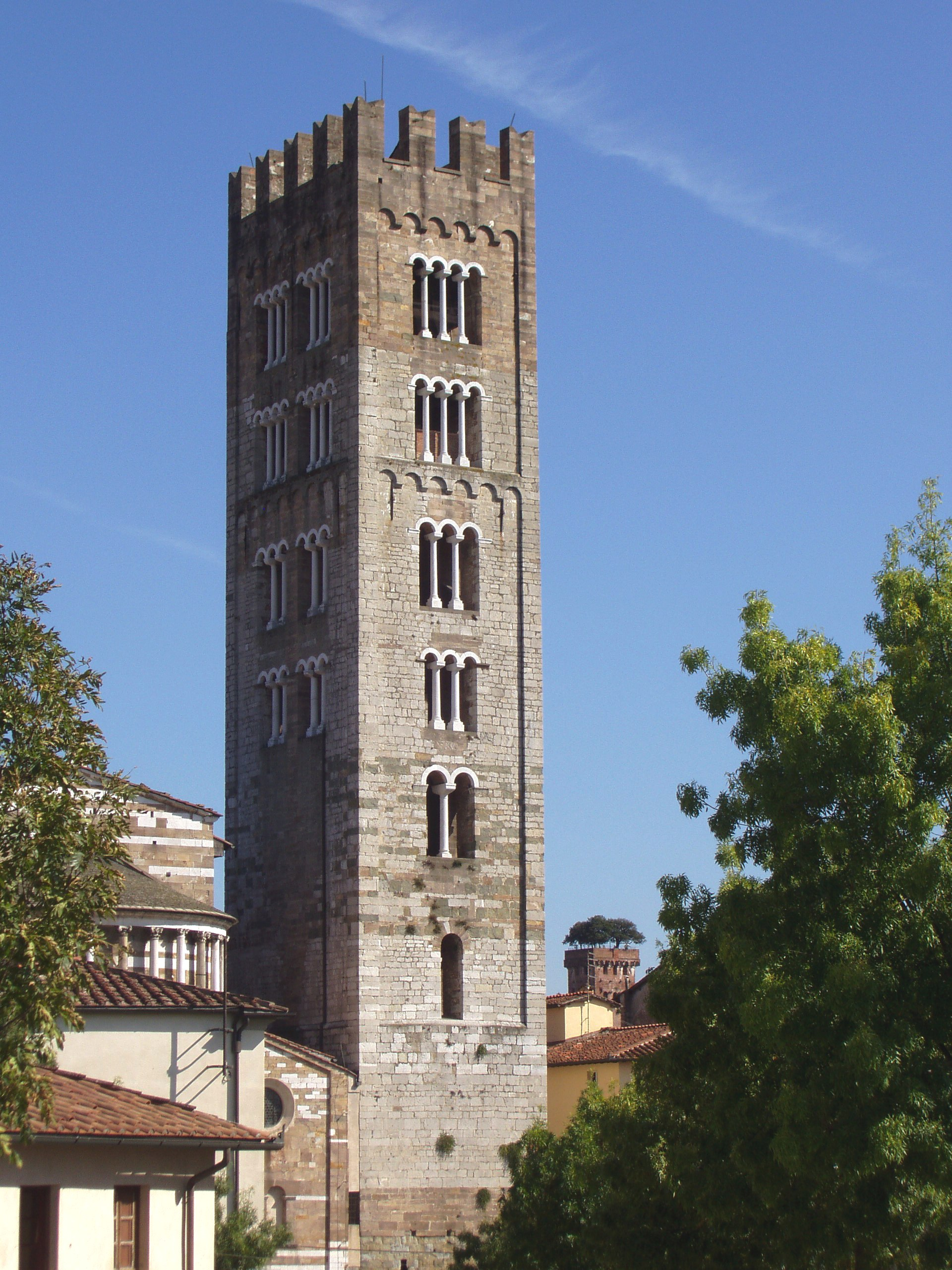 San Frediano, Lucca, Italy - tower viewed from the rear.